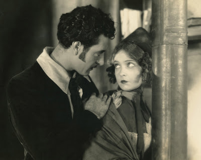 John Gilbert and Lillian Gish in a scene from the film La Bohème (1926, dir. King Vidor).